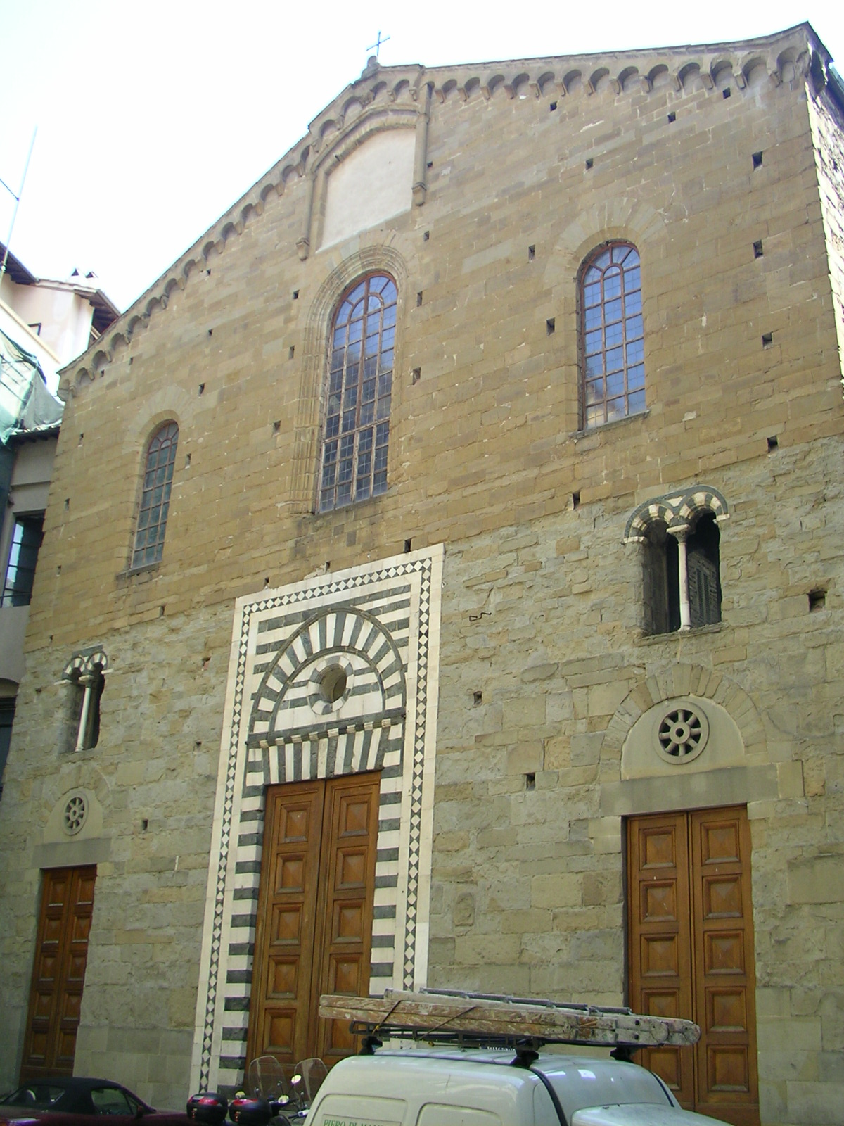 Santo Stefano al Ponte church (front) in Florence, Italy